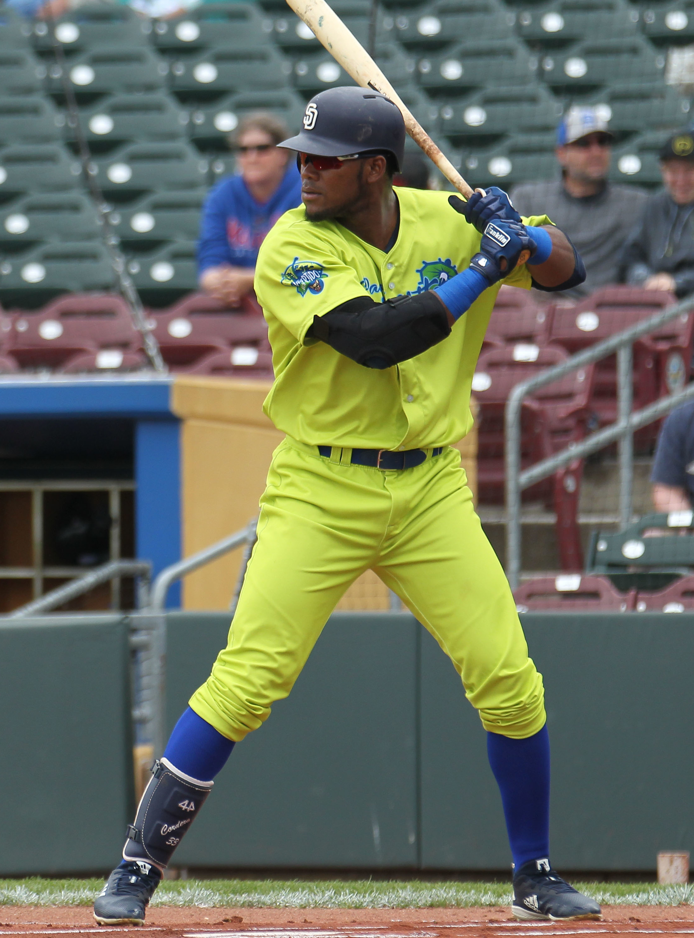 Franchy Cordero at bat for the El Paso Chihuahuas during a June 2019 game at Werner Park in Nebraska